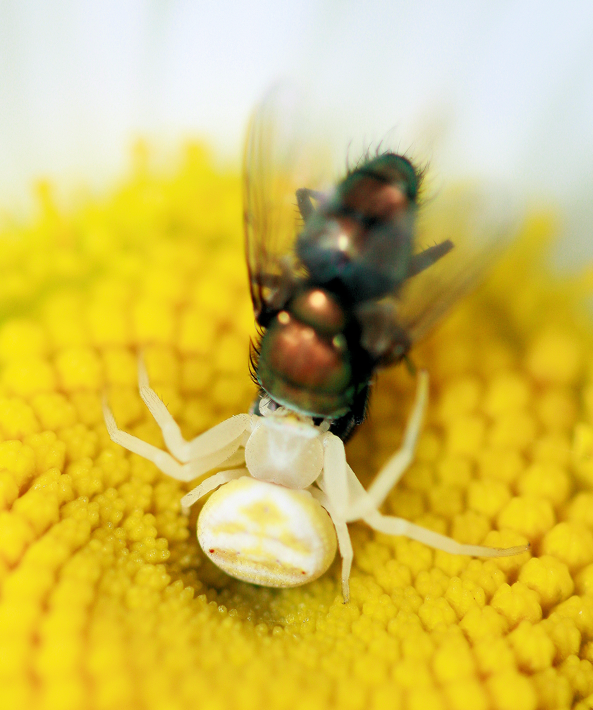 African wildlife. In lieu of the Big Five